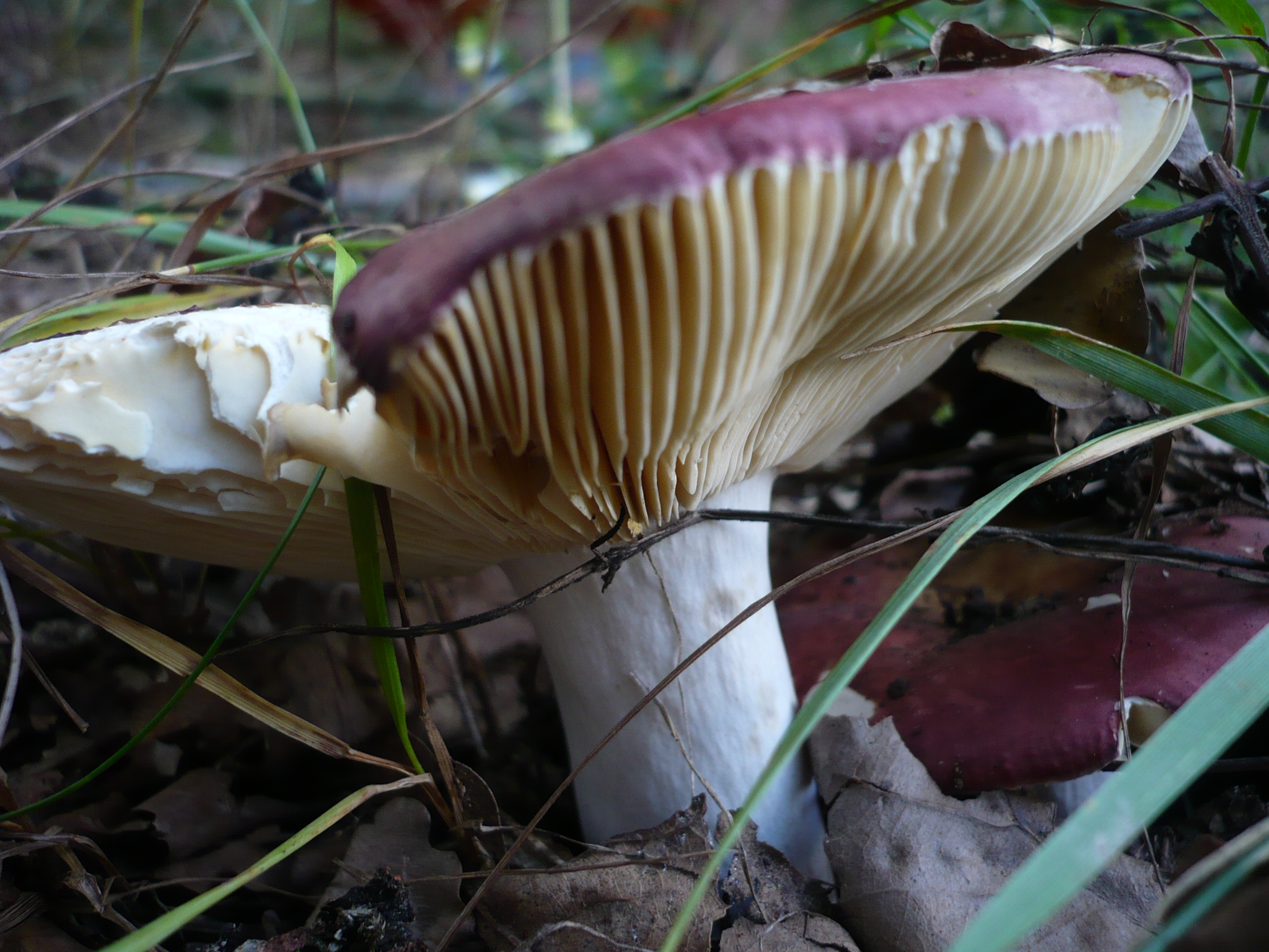 Russula decipiens Image location: Lucni rybnik, Tabor, Bohemia, Czech Republic Recognized by sight: ID’ed by the local ranger who guards this protected area since years and years. Used references For more information about this, see the observation page at Mushroom Observer.